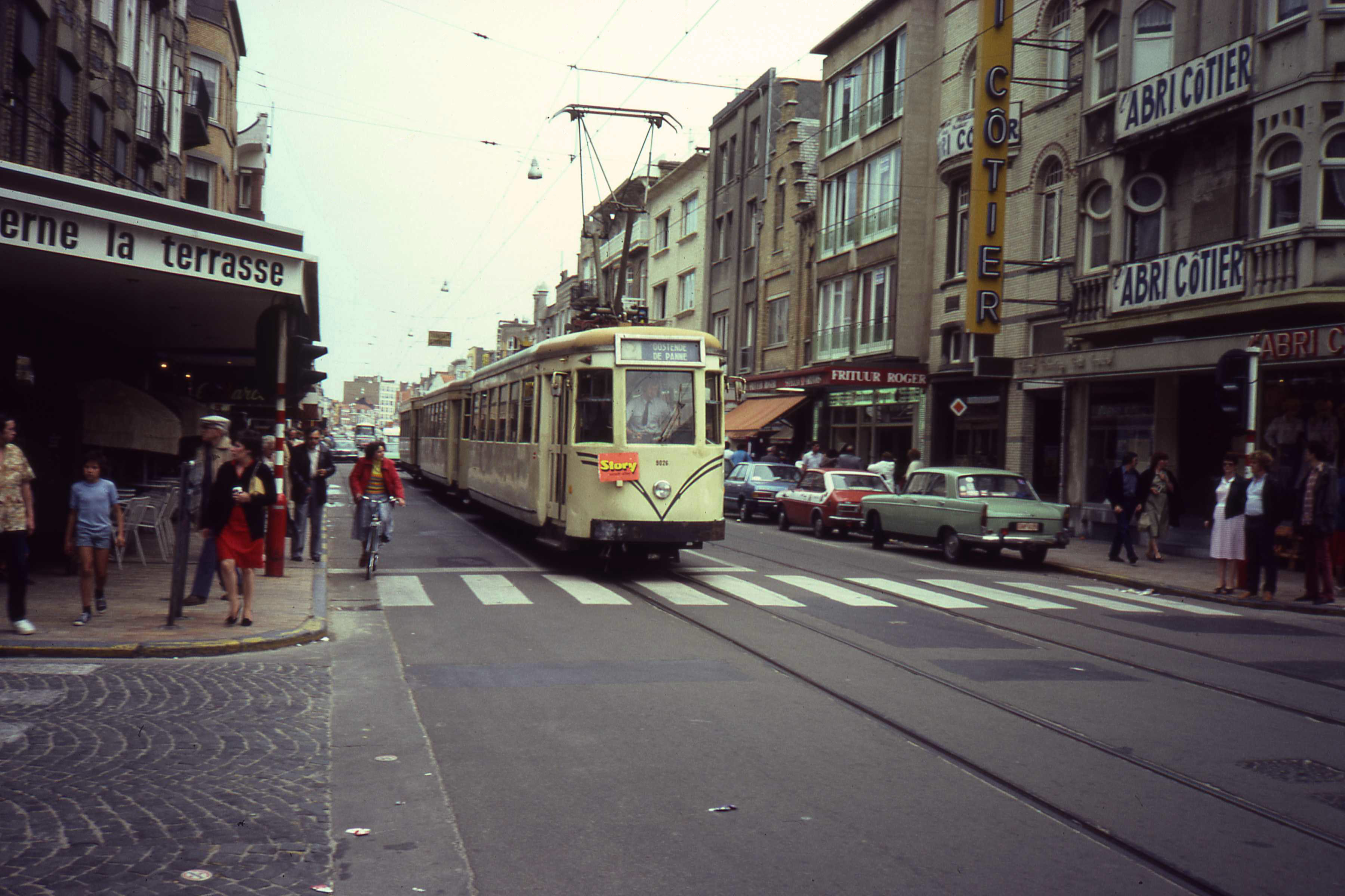 Typical NMVB tram in 1981 with two trailers in De Panne.